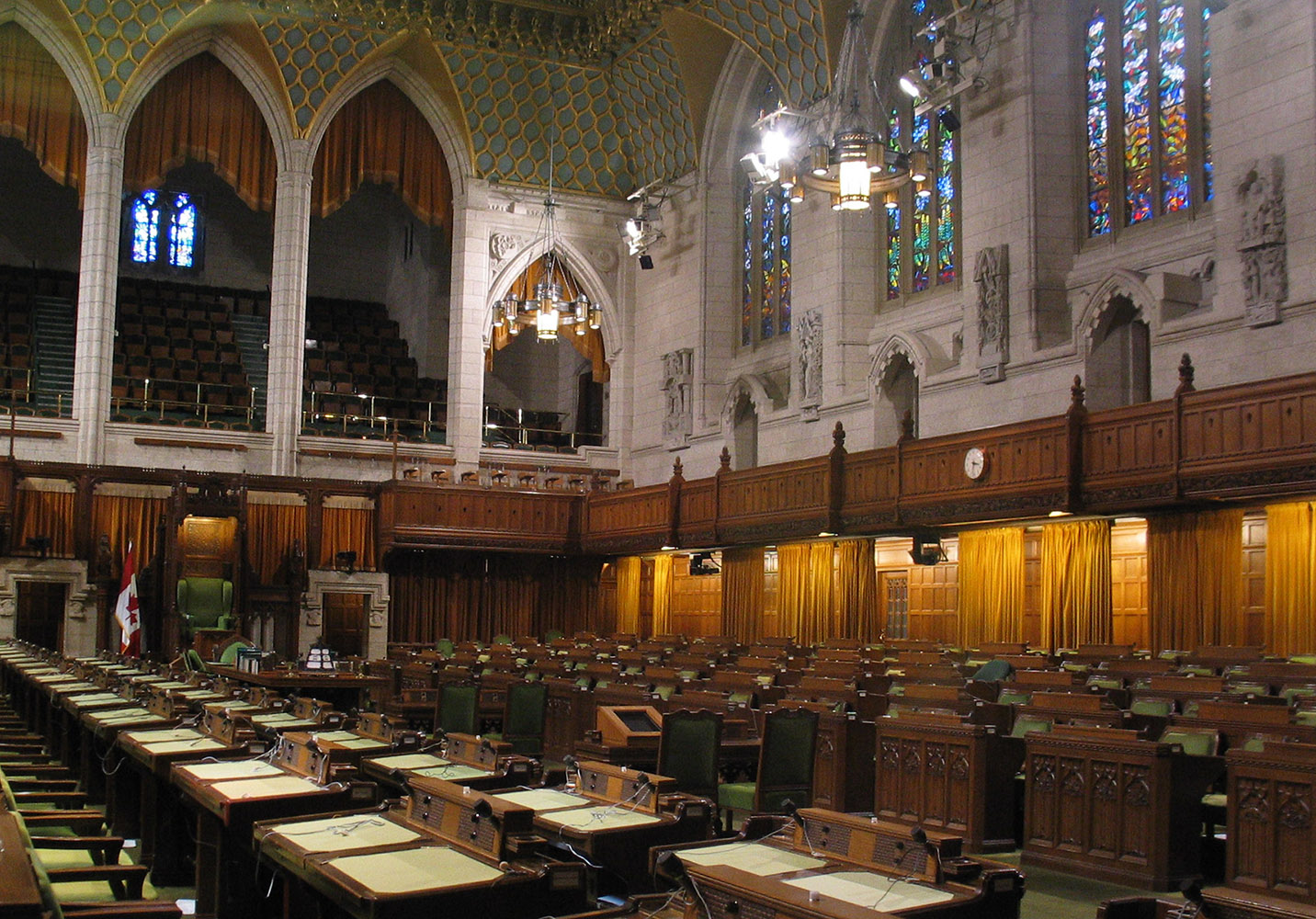 The Parliament. The House of Commons Chamber / Ottawa, Canada